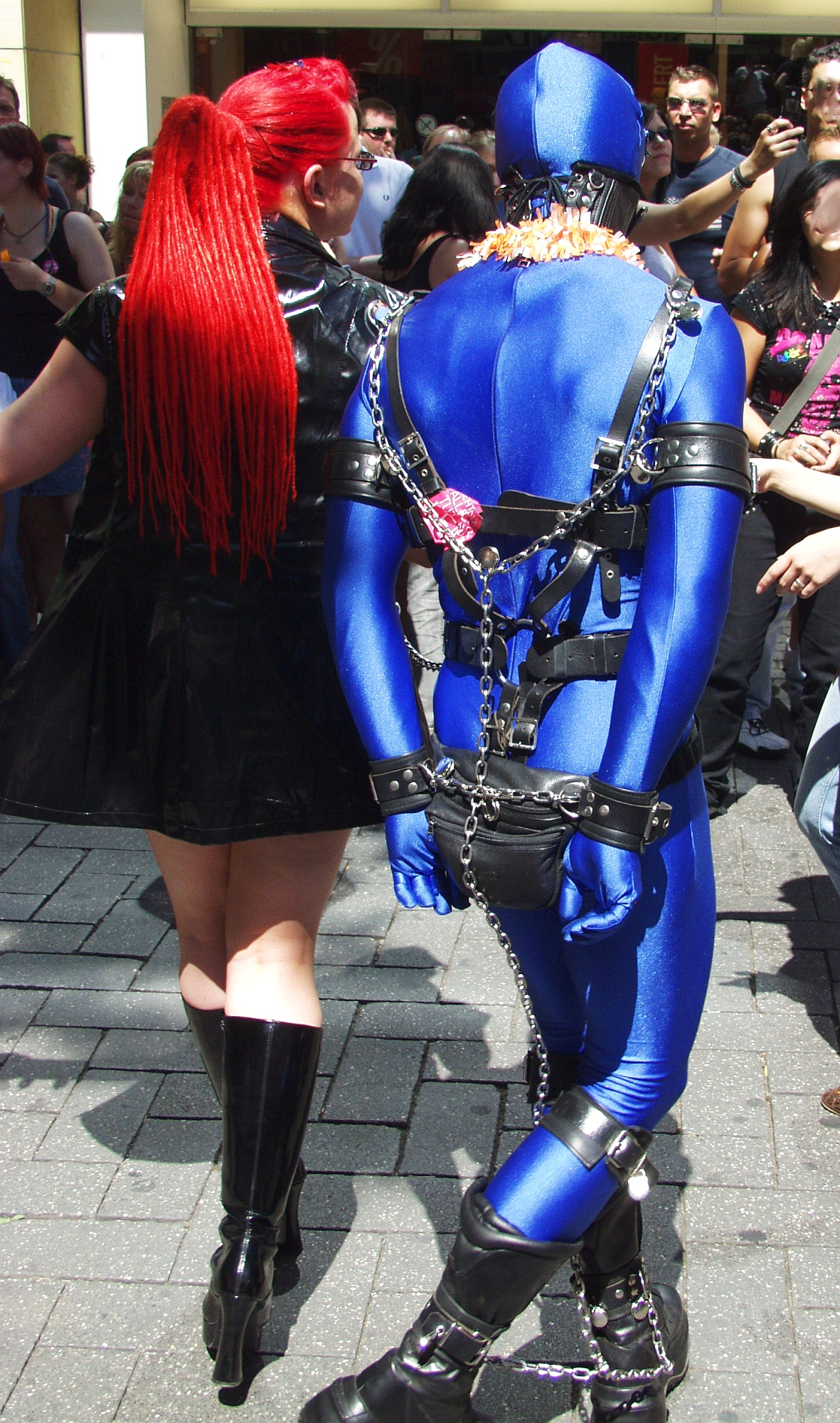 Members of the Christopher Street Day demonstration - ColognePride 2006